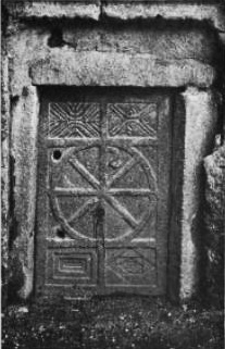 A black, basalt door of an ancient structure in the Syrian village of Khan Sabil